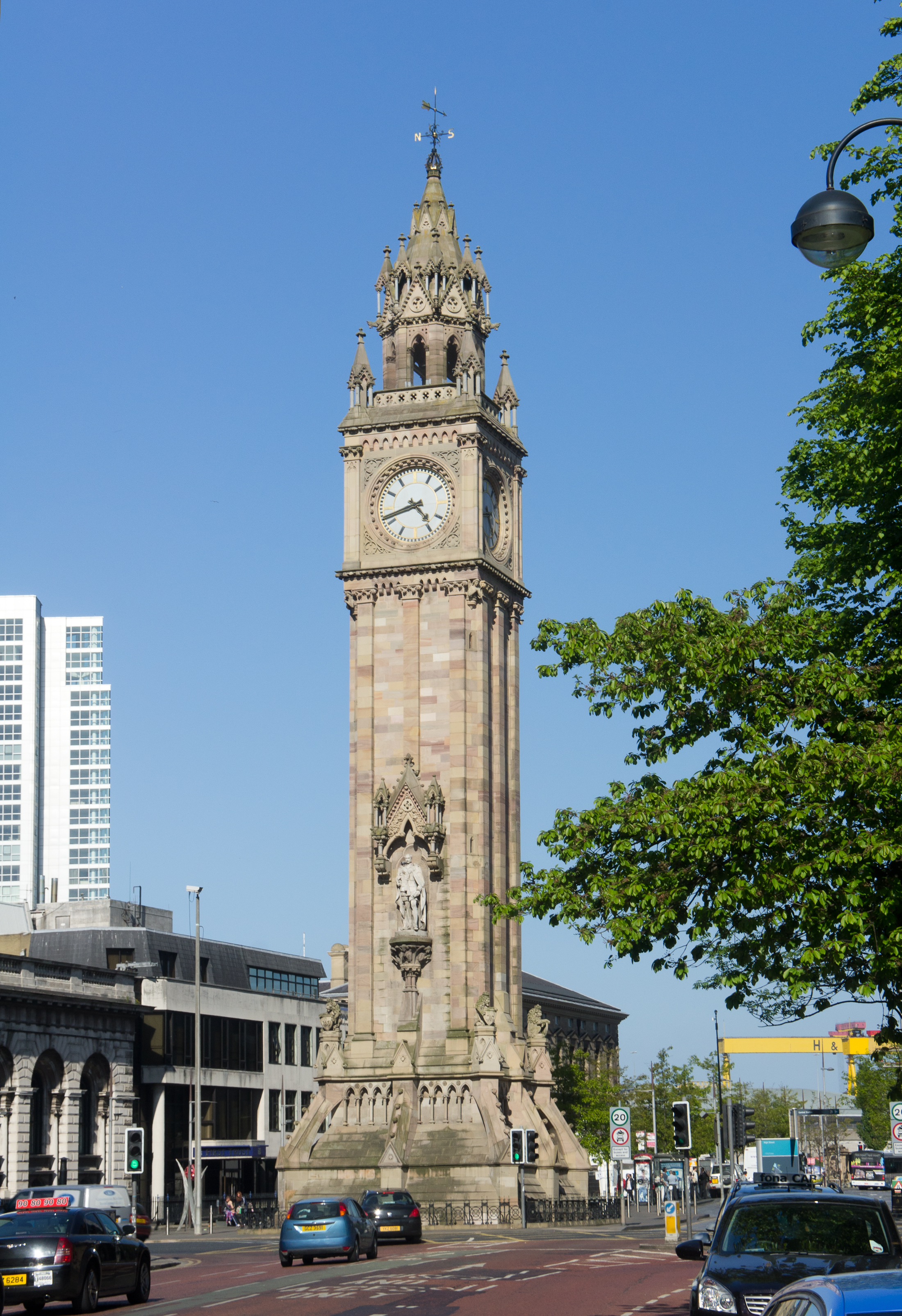 Albert Memorial Clock tower in Belfast, Northern Ireland.